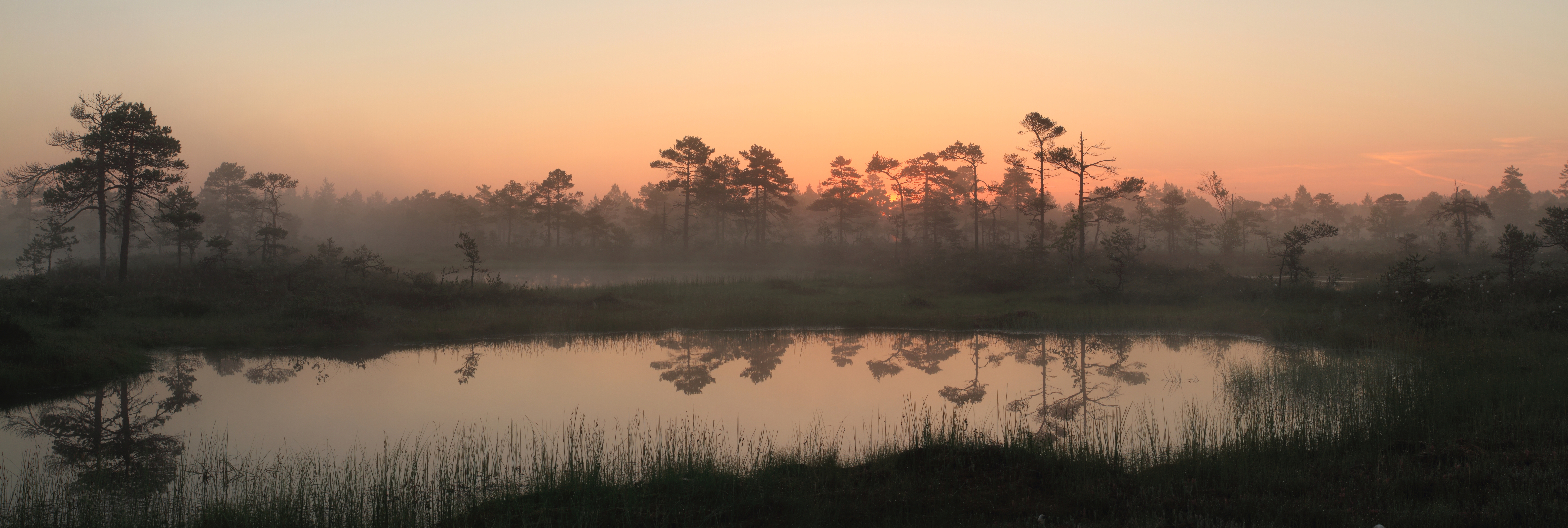 Mukri bog